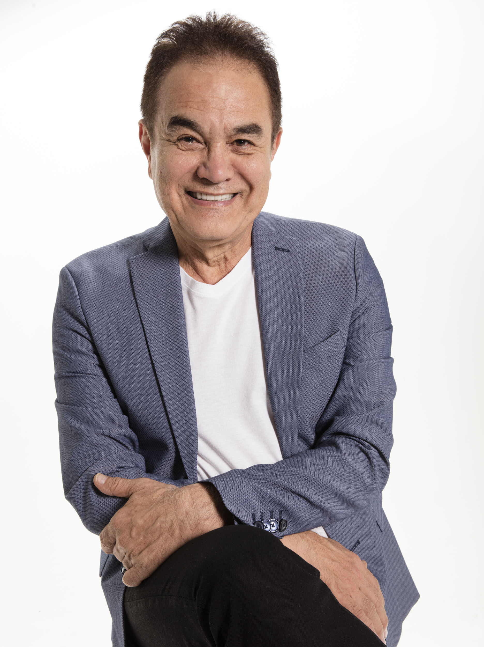 Roberto Shinyashiki